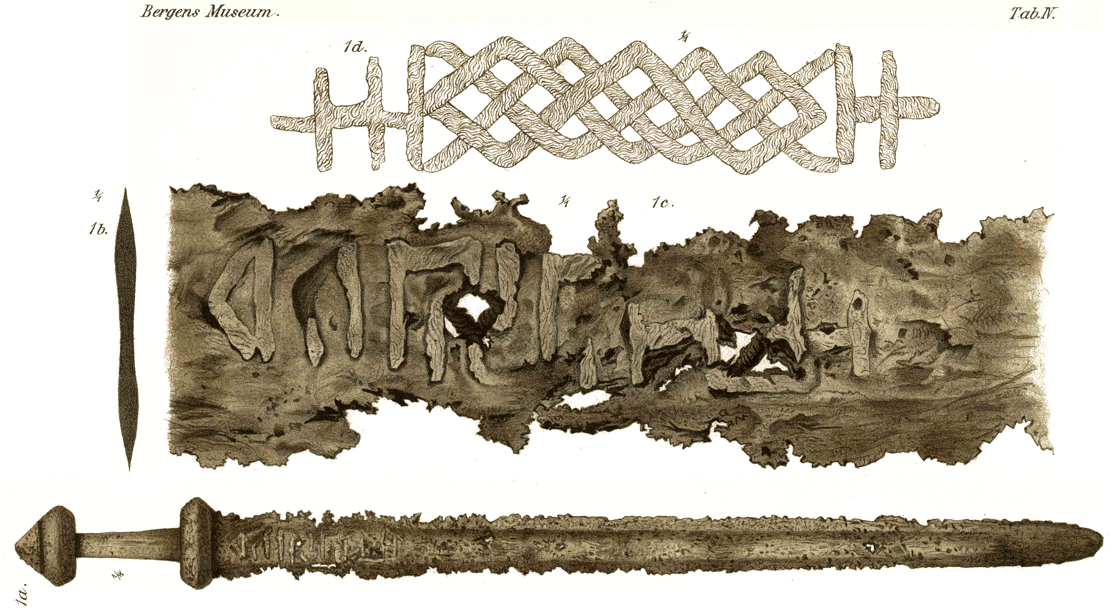 A detailed drawing of a viking age sword from the early 9th century found at Sæbø in the west of Norway. The swords is kept at Bergen Museum with the object number B1622. Original caption: Fig. 1. Haugfundet Sværd fra Sæbø i Hoprekstad, Vik i Sogn. B. M. No. 1622. 1 a. Sværdet i 1/4. 1 b. Tværsnit af Kingen. 1/1. 1 c. Øverste Del af Klingen mit indlagte Tegn. 1/1. 1 d. Indlagt Mærke paa Klingens anden Side. 1/1.